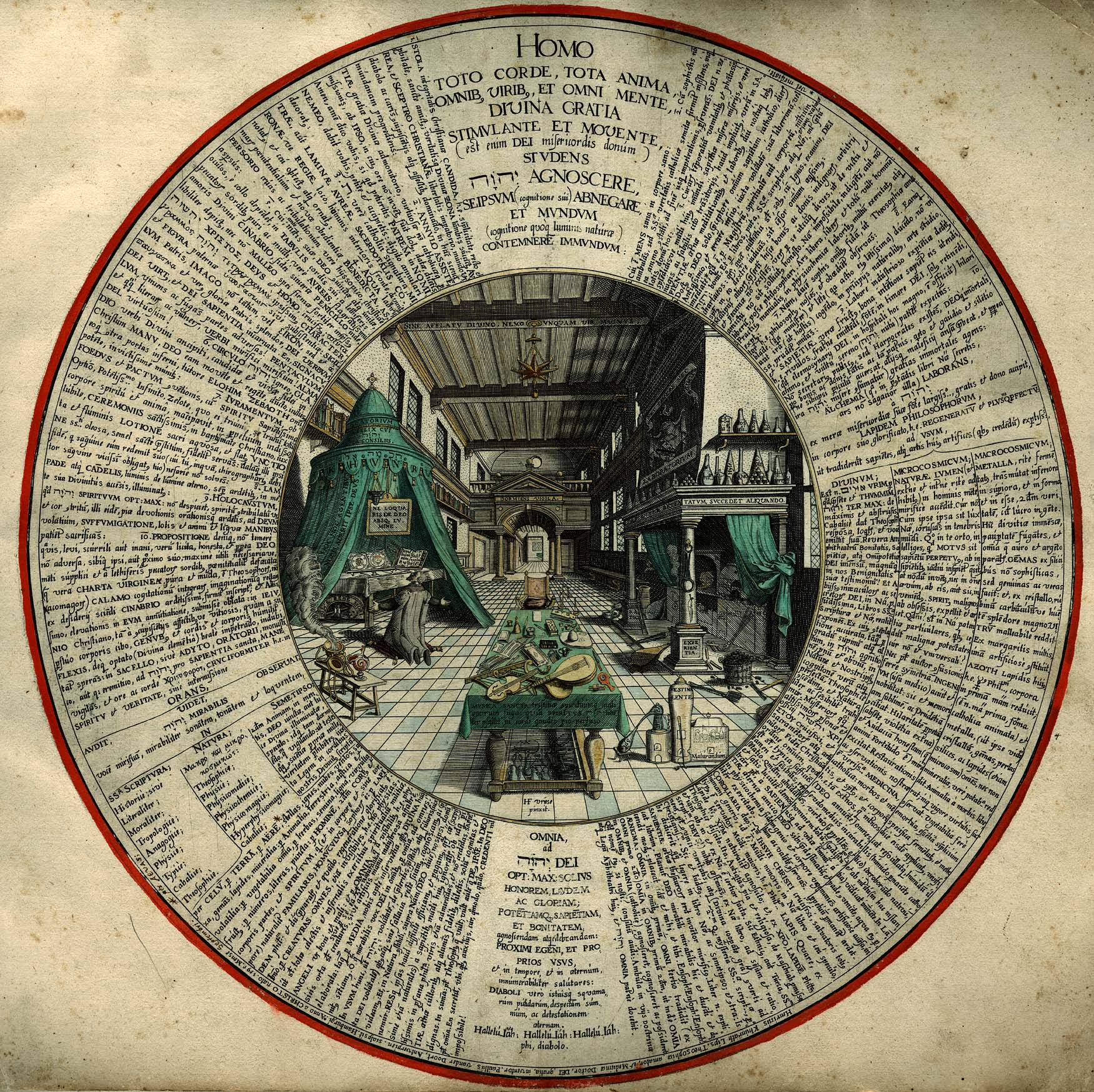 alchemist's laboratory, engraving pictured in the book Amphitheatrum sapientiae aeternae written by Heinrich Khunrath